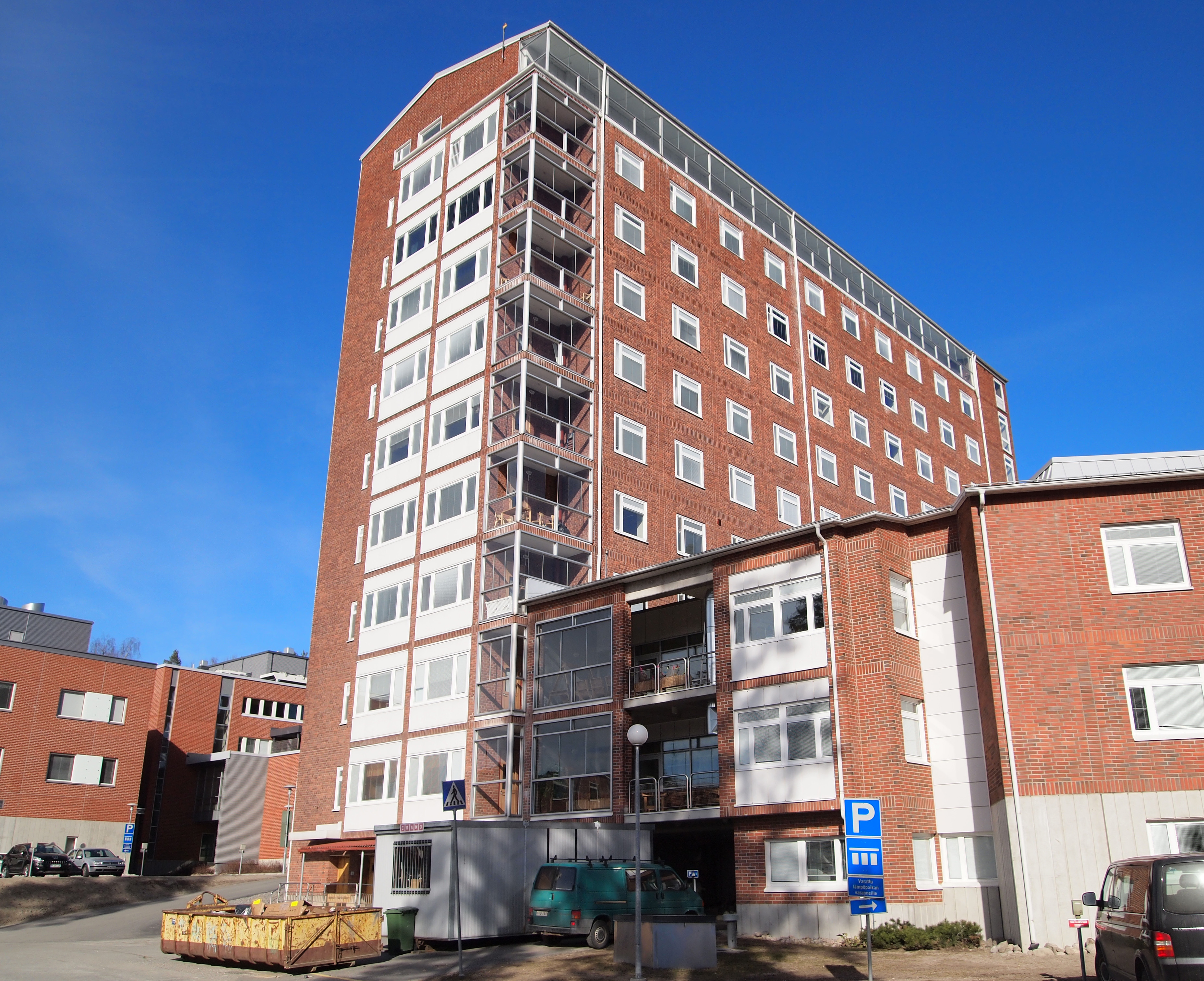 Central Finland Central Hospital in Jyväskylä. This photograph was taken with an Olympus E-PL1